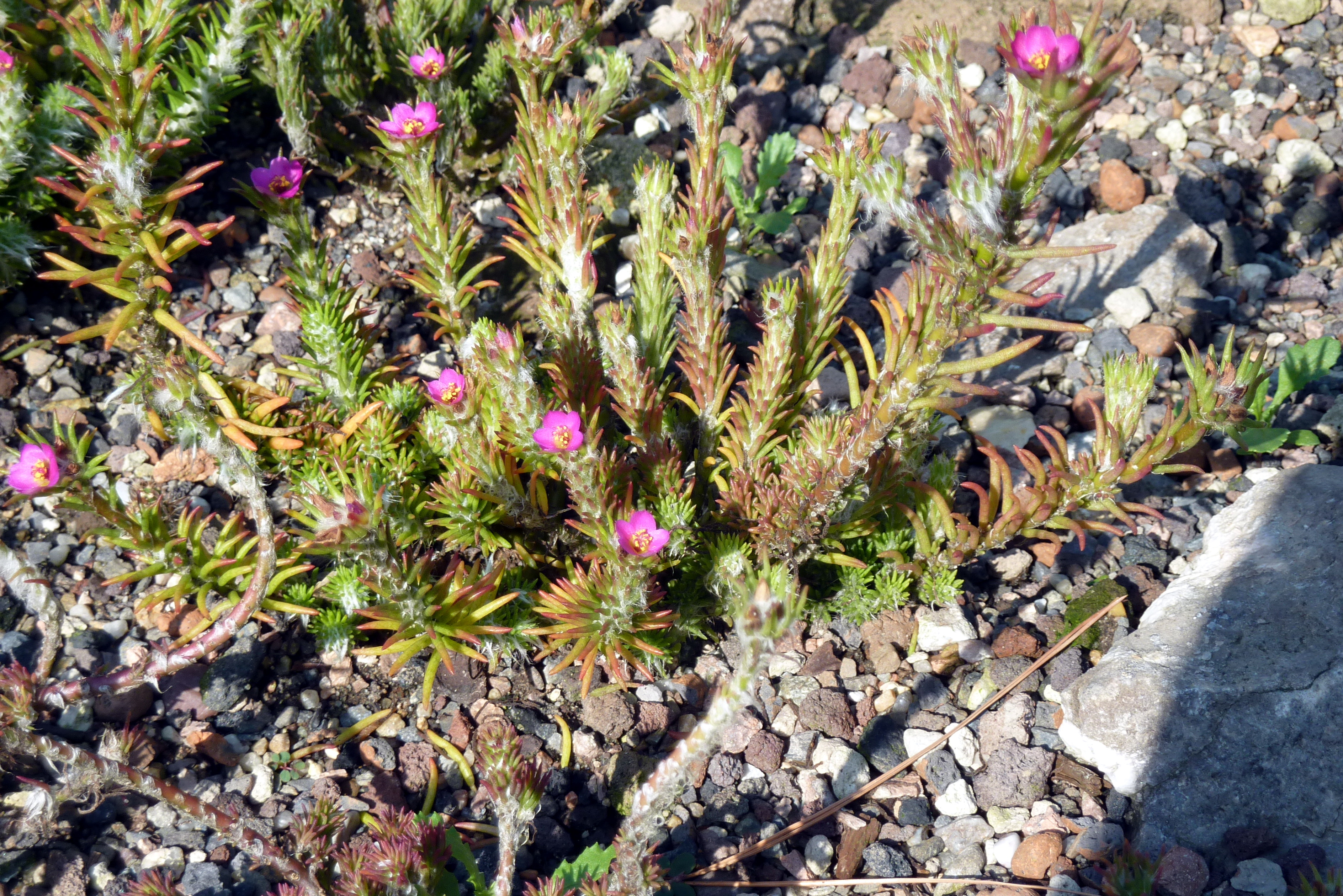 Portulaca elatior